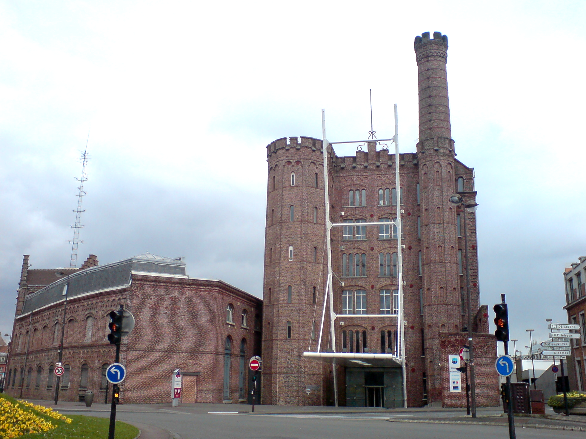 The "Center of the Archives of the World of Labour" (french Centre des archives du monde du travail) in Roubaix is located in the former "monster factory" (french l'usine monstre) of the industrialist Louis Motte-Bossus, which has become the emblem of the city's renewal.